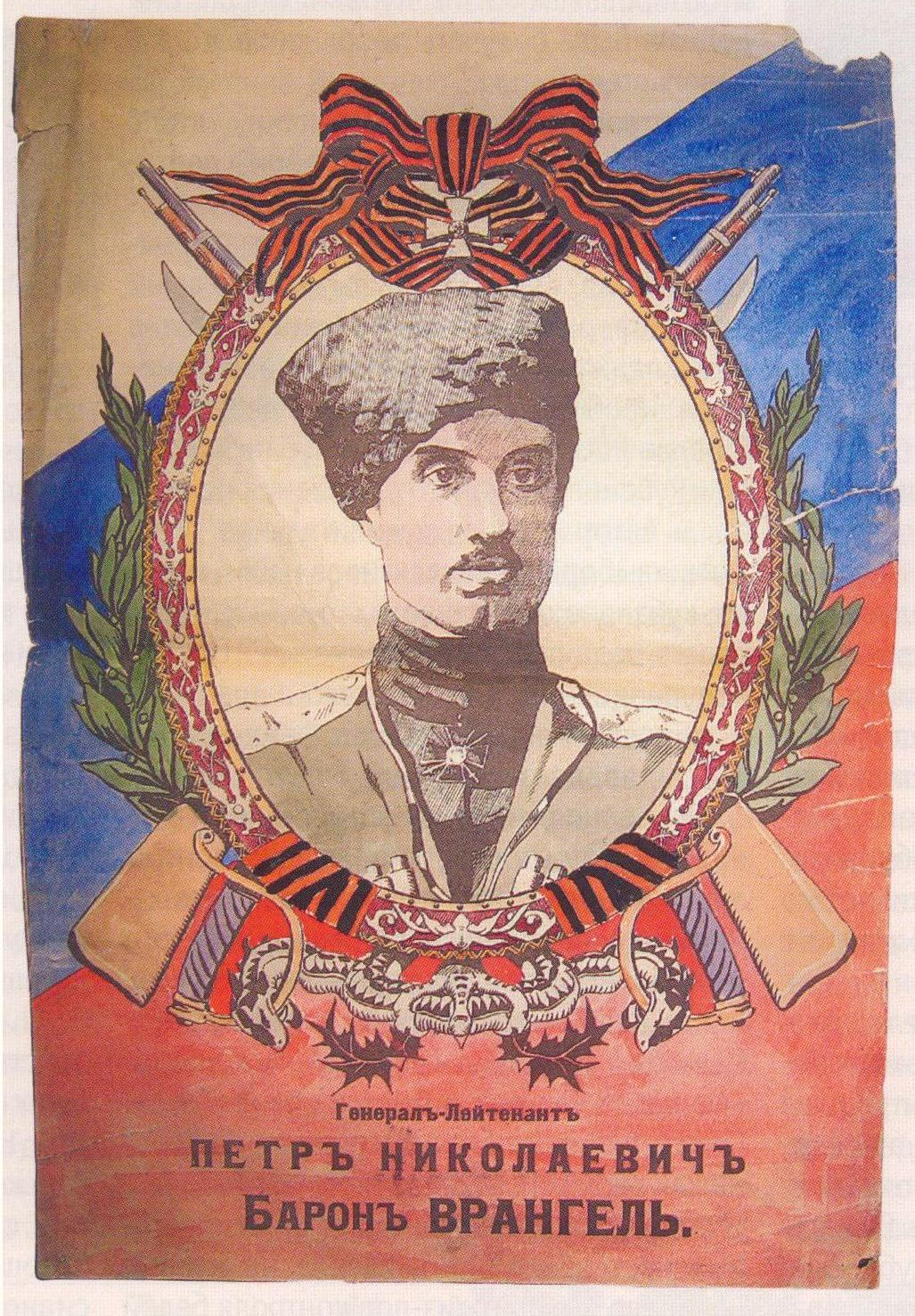 White propaganda poster, "Lieutenant - General Baron Pyotr Nikolayevich Wrangel" in a series of "generals" posters. VSYUR. 1919.